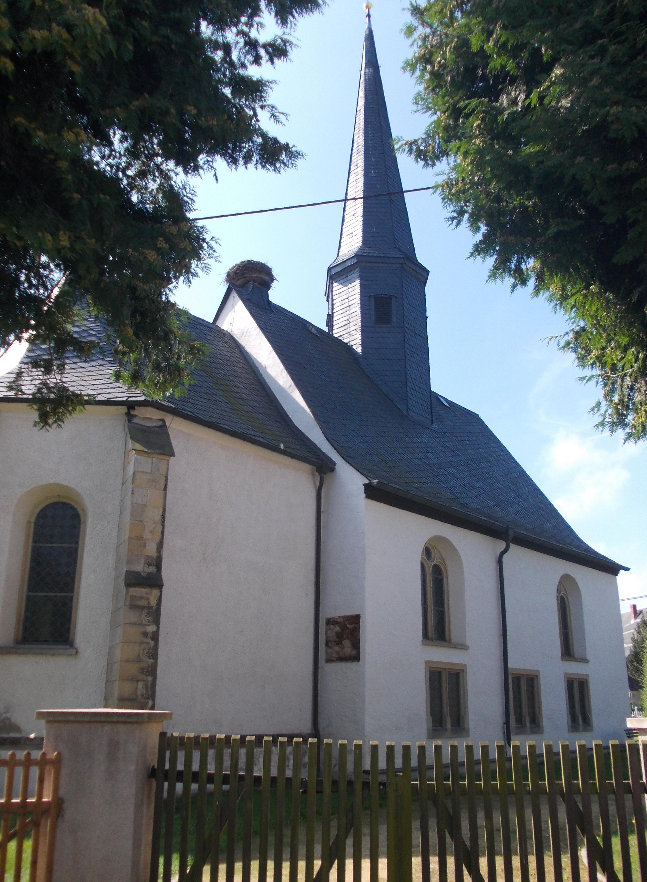 Schlunzig church (Zwickau, Saxony)